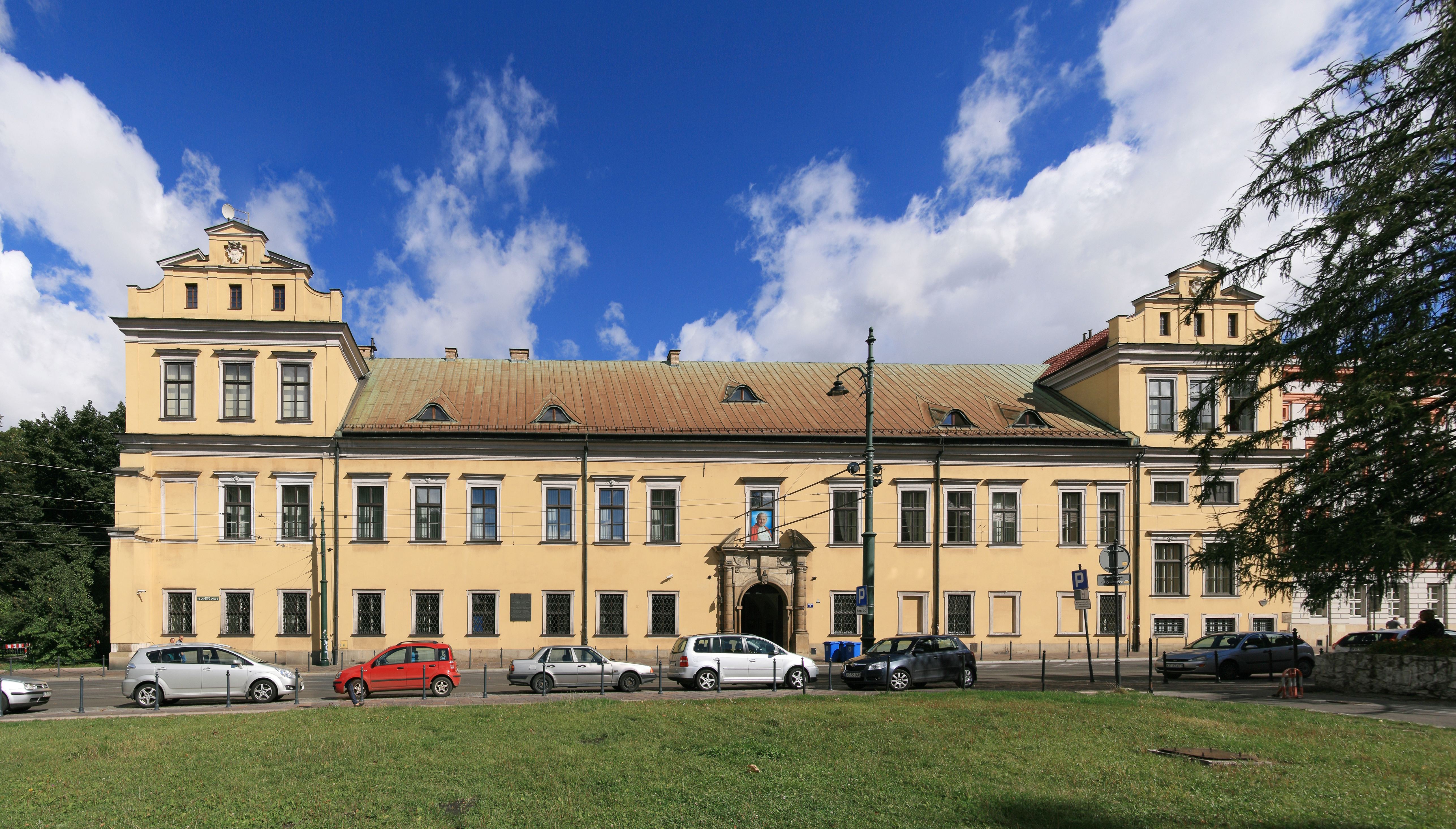 Bishops Palace in Krakow